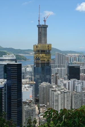 Progress of the One Island East